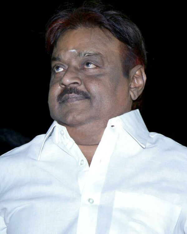 Vijaykanth at the Sagaptham Audio Launch